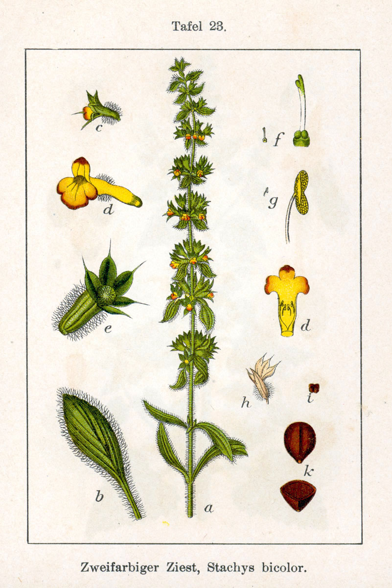 Sideritis montana L. subsp. montana, syn. Stachys bicolor (Moench) E.H.L.Krause Original Description Zweifarbiger Ziest, Stachys bicolor